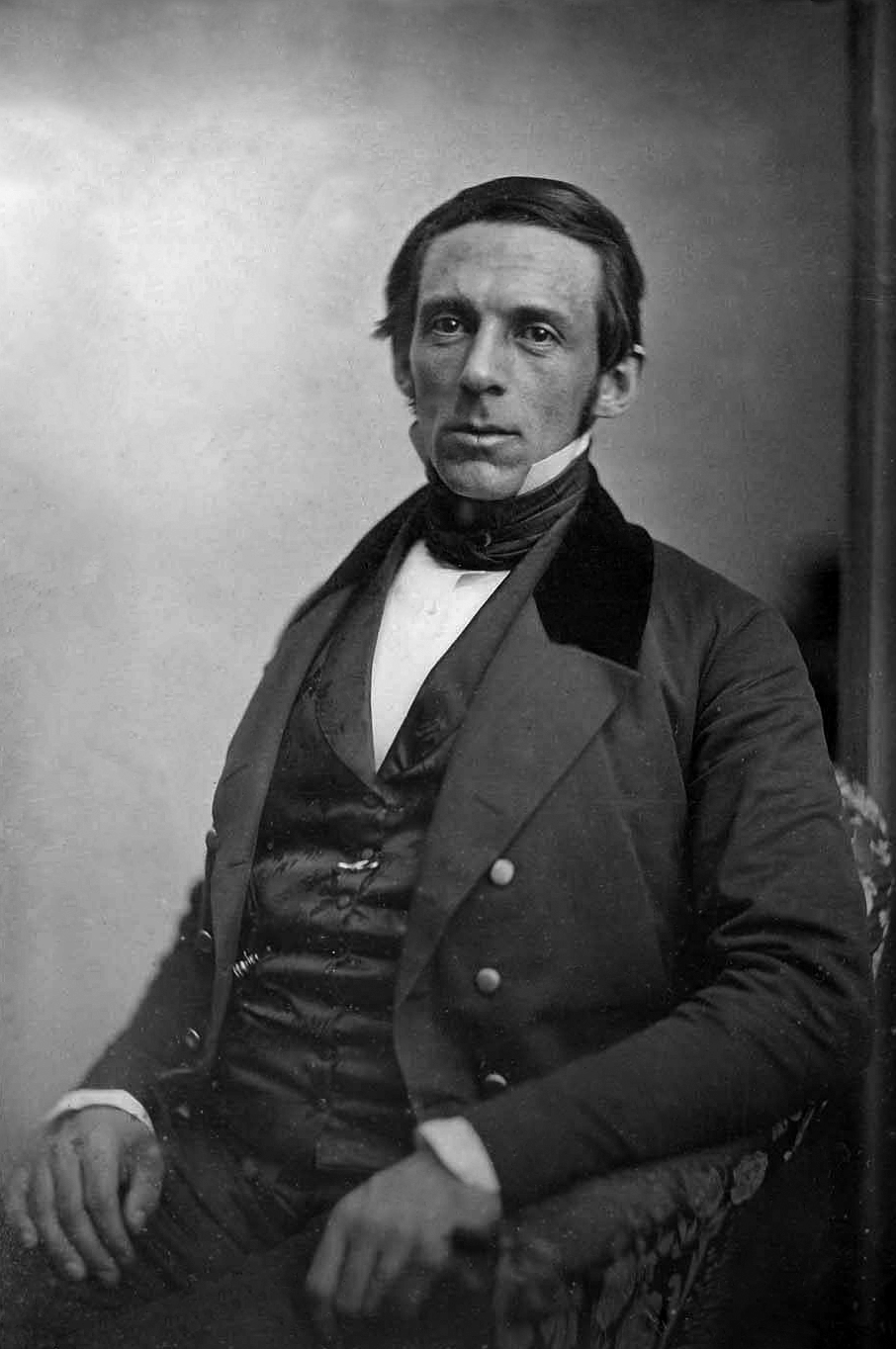 Portrait of George Sewall Boutwell